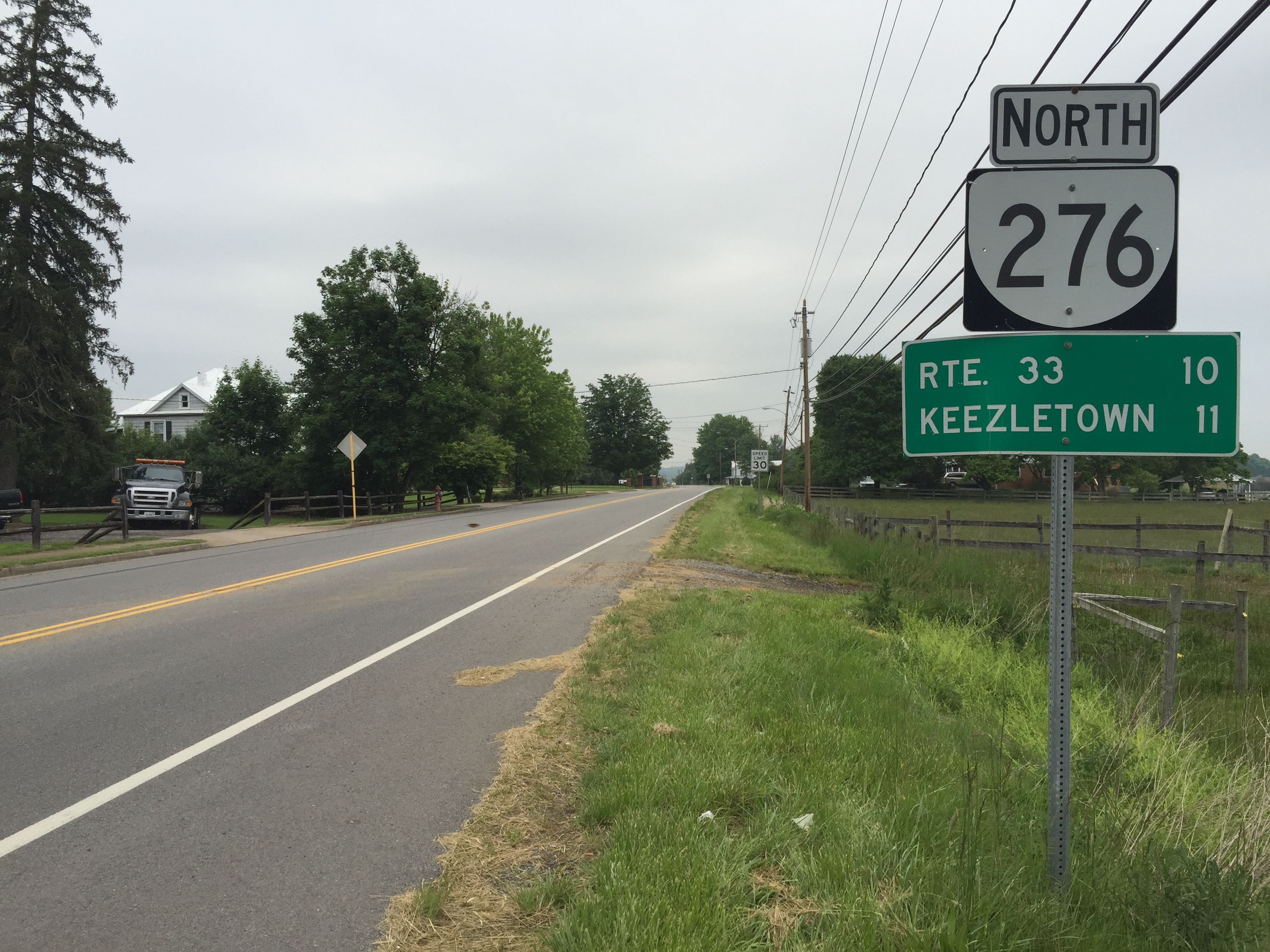 View north along Keezletown Road (Virginia State Route 276) near Dices Spring Road in Weyers Cave, Augusta County, Virginia